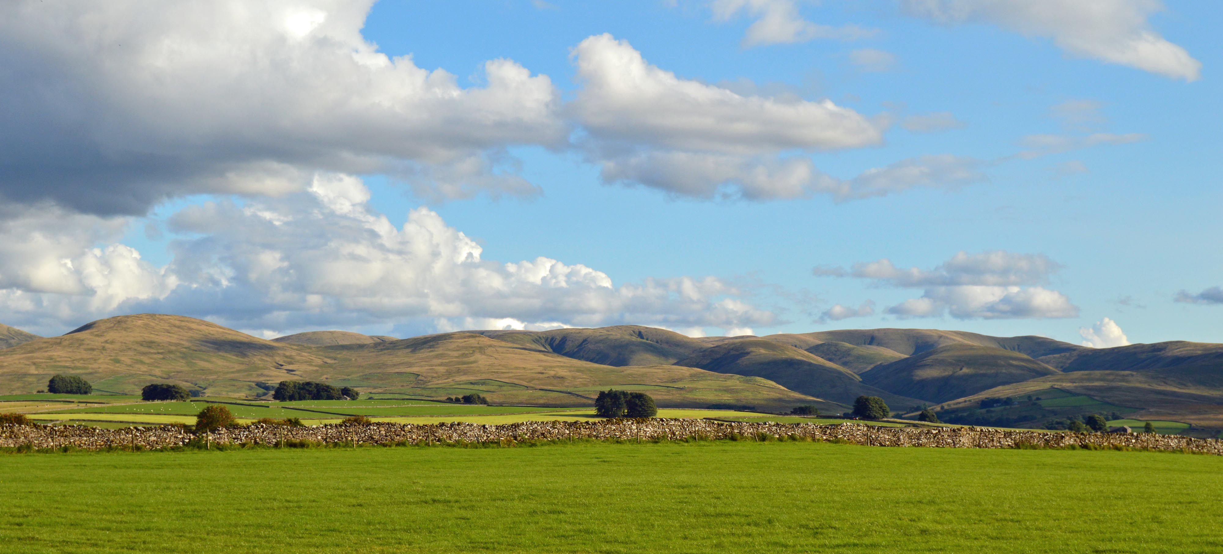 Panorama of Howgill Fells at sunset from Raisgill